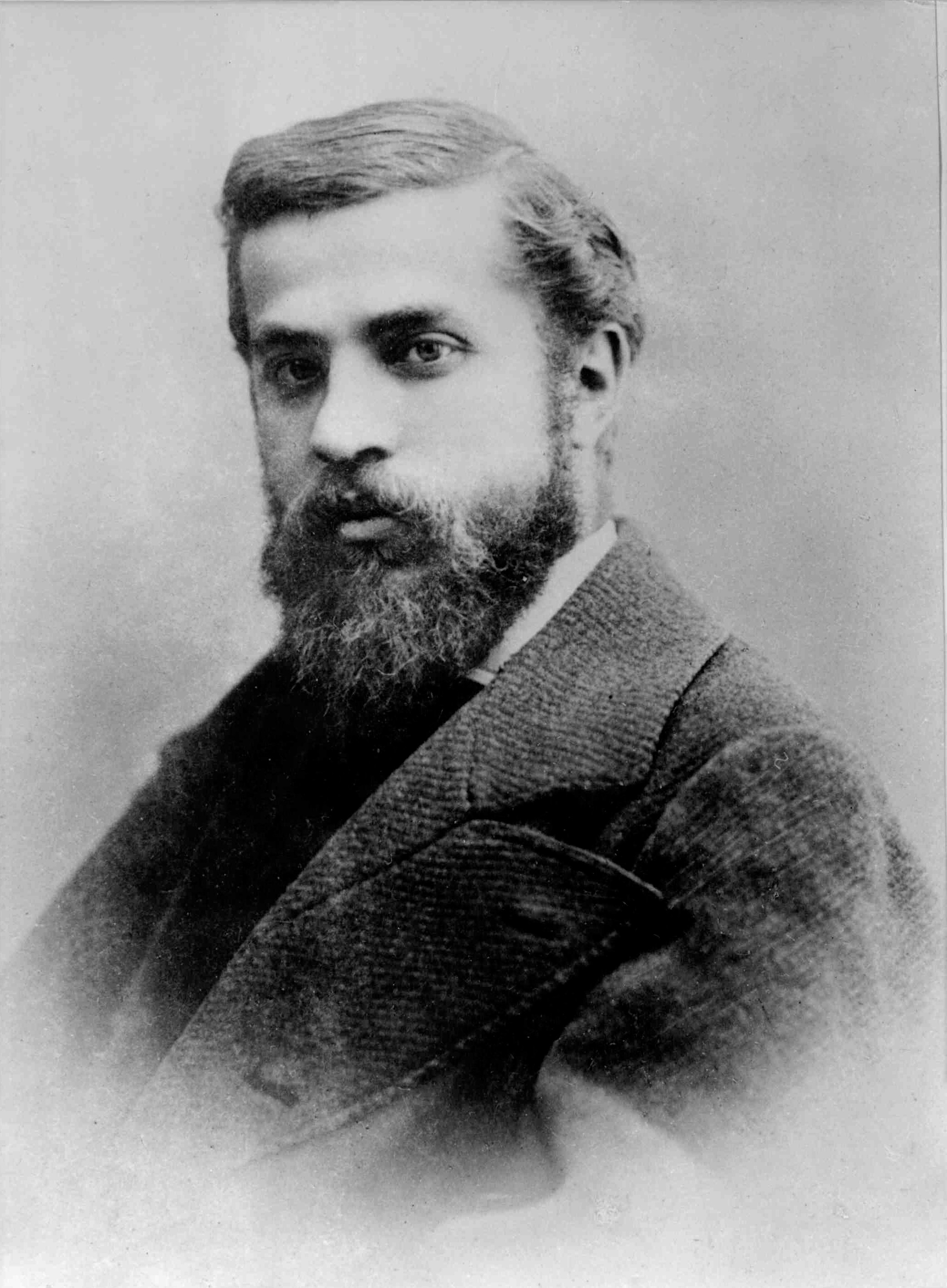 Portrait photograph of Antoni Gaudí i Cornet.